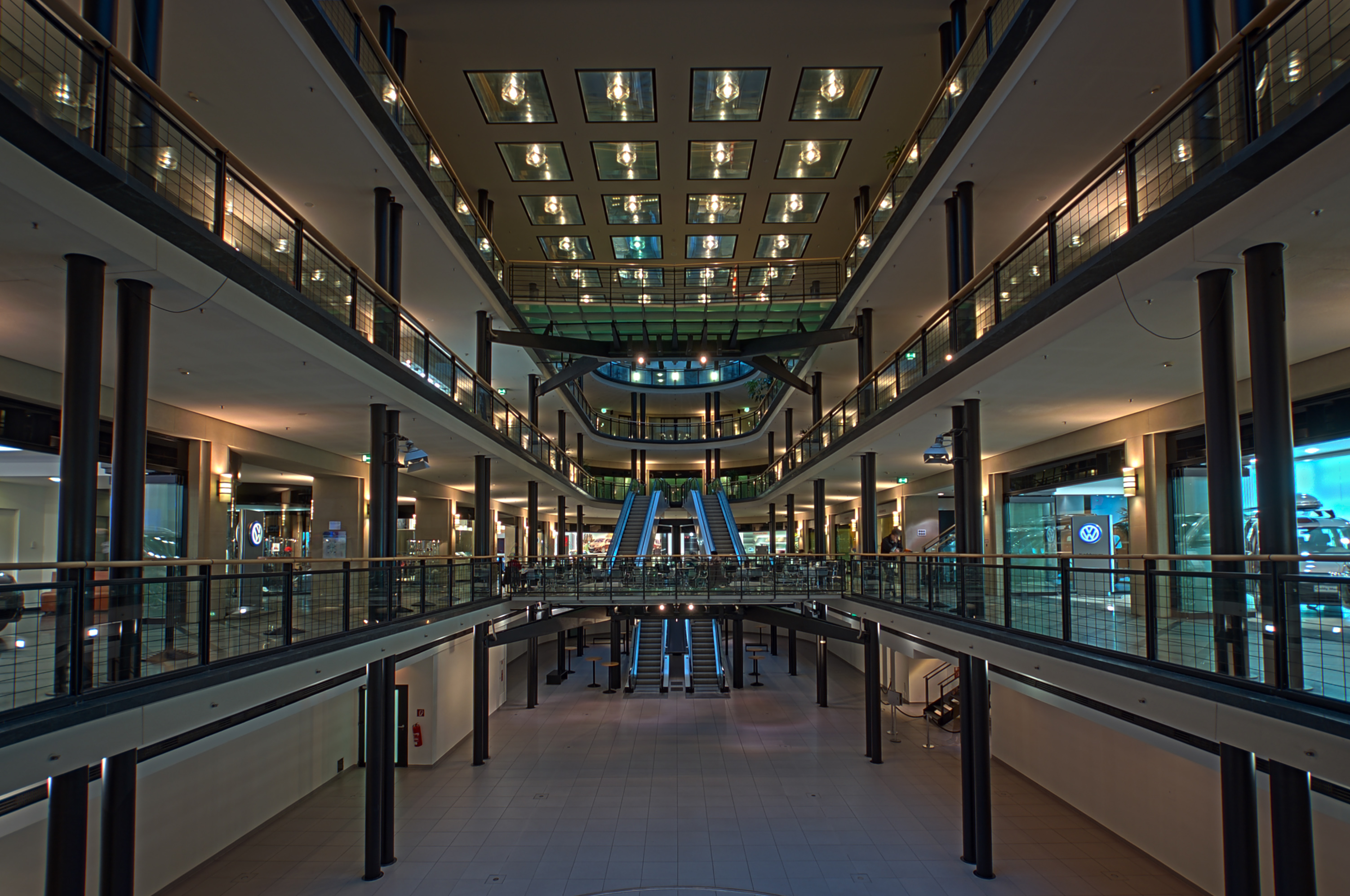 Screenshot für eine HDR- Erstellung mit Photoshop This file is used in a Wikiversity project or course. Please don't change it before you inform the author.